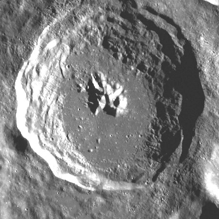 Finsen far side lunar crater - LROC image.